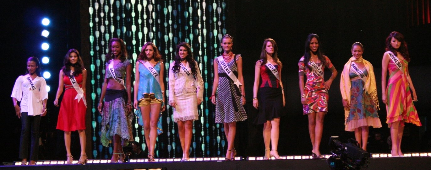 Contestants during rehearsals for the Miss Universe 2007 pageant in Mexico City, Mexico